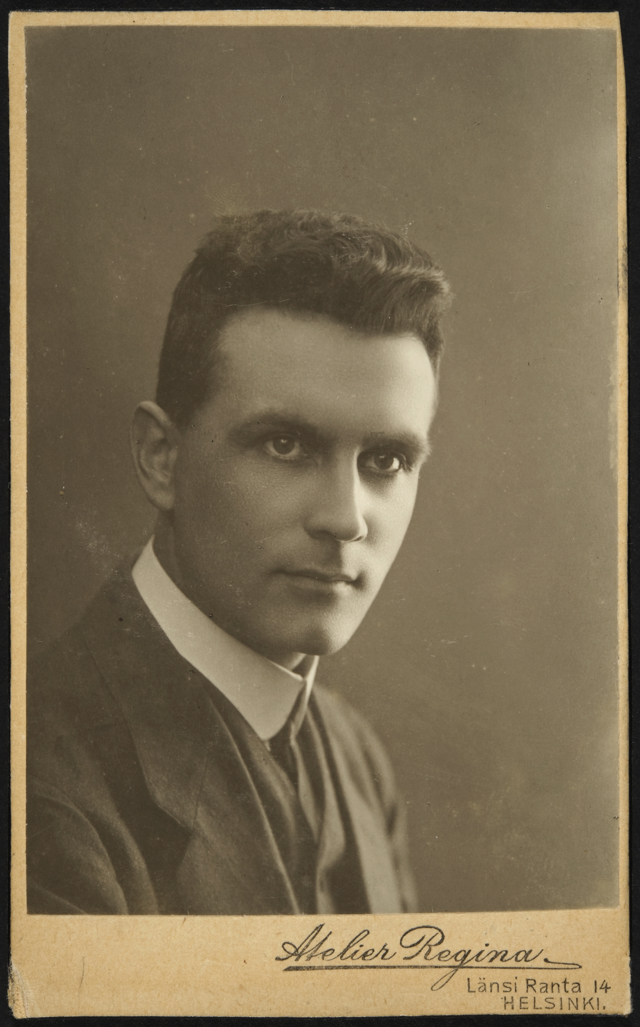 Photograph of the Finnish archaeologist Arne Michaël (Mikko) Tallgren (1885–1945).